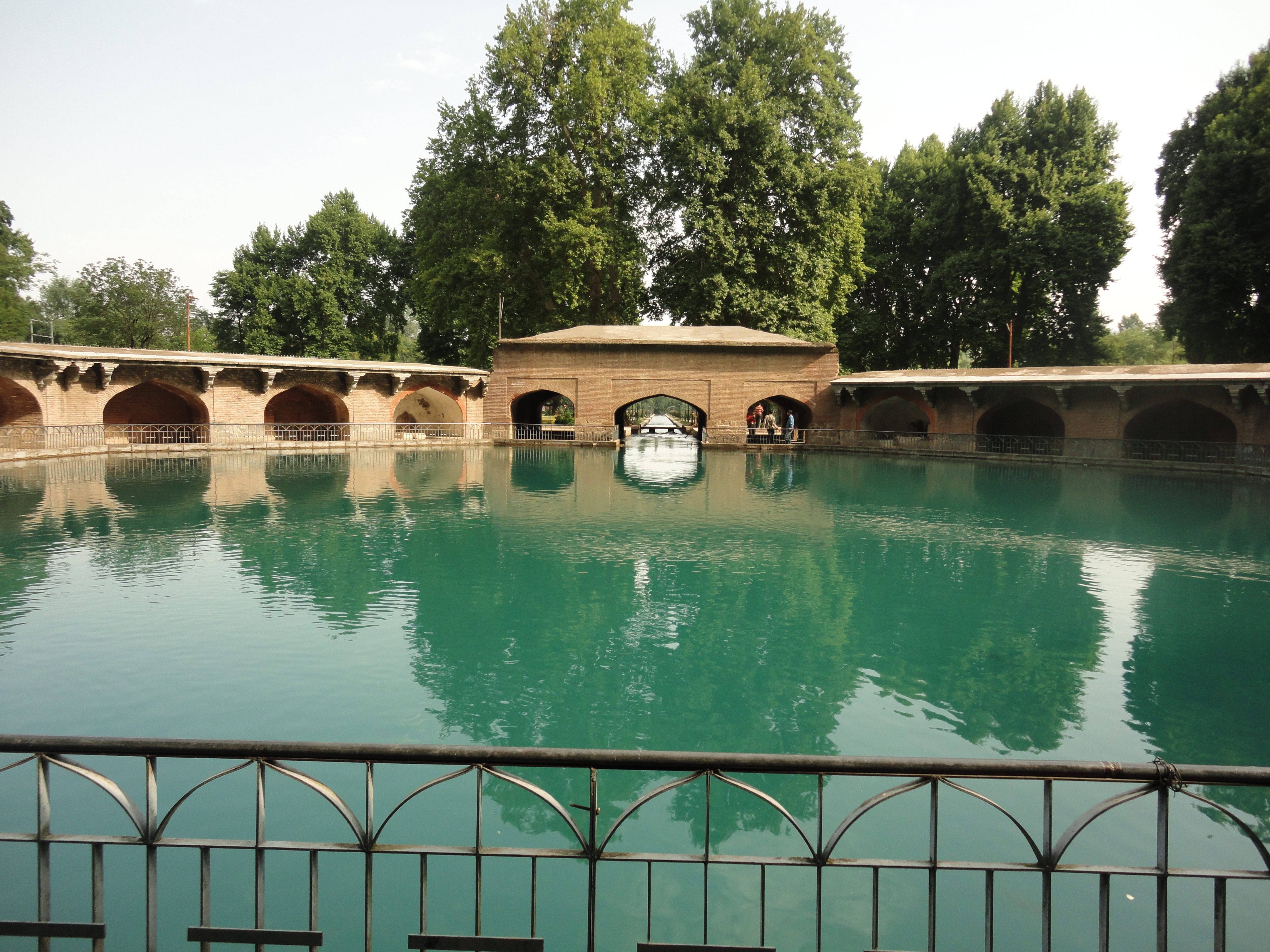 This is a photograph of Vernag water spring at mughal garden in Verinag, Jammu_%26_Kashmir , India. Some of the arched recesses around the spring can also be seen in the photograph.